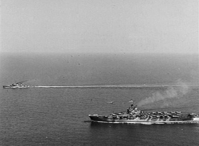 The Australian aircraft carrier HMAS Sydney (R17) in company with the destroyer USS Walker (DD-517) off Korea in 1951. Fairey Firefly aircraft are ranged on the deck forward with Hawker Sea Fury aircraft aft. Note the Sikorski S-51 search and rescue helicopter above the flight deck forward.